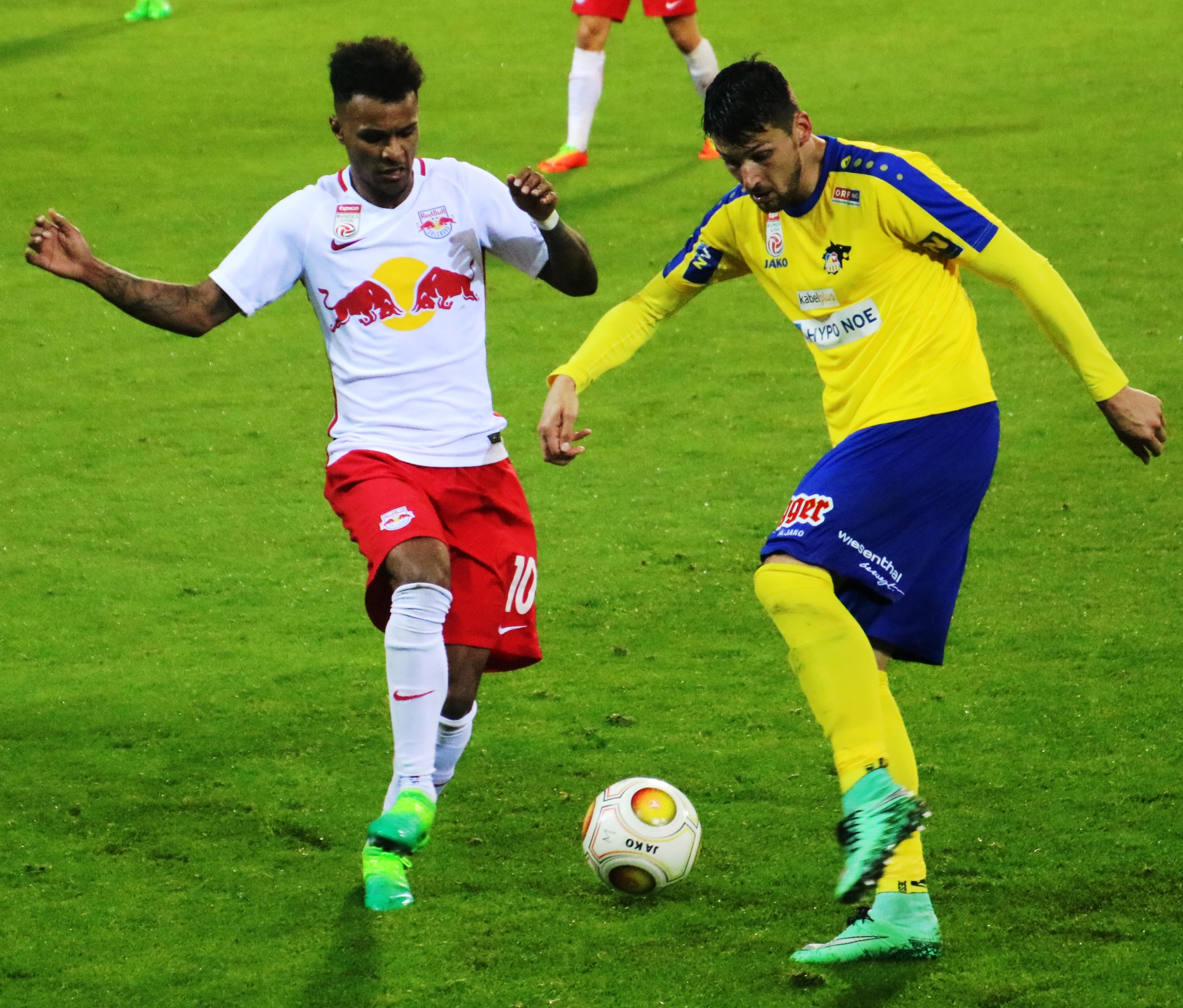 Austrian Bundesliga league match 30rd round